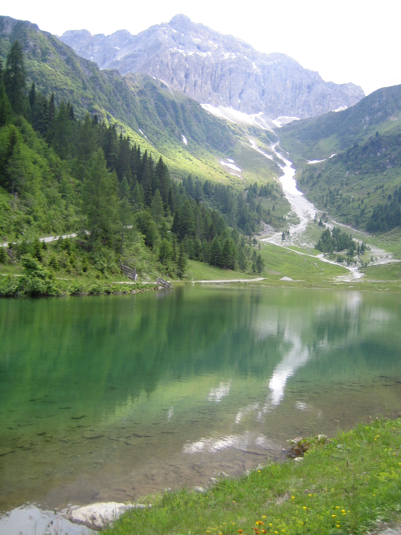 Porze from north